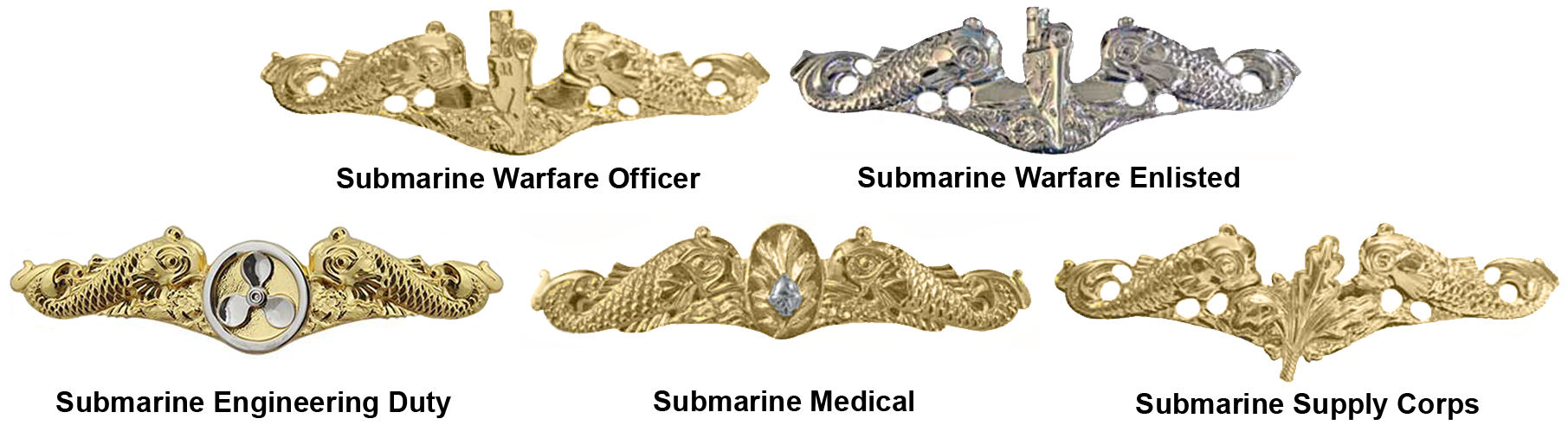 Image of Submarine Warfare insignia used in the US Navy. For use in USN articles concerning awards.